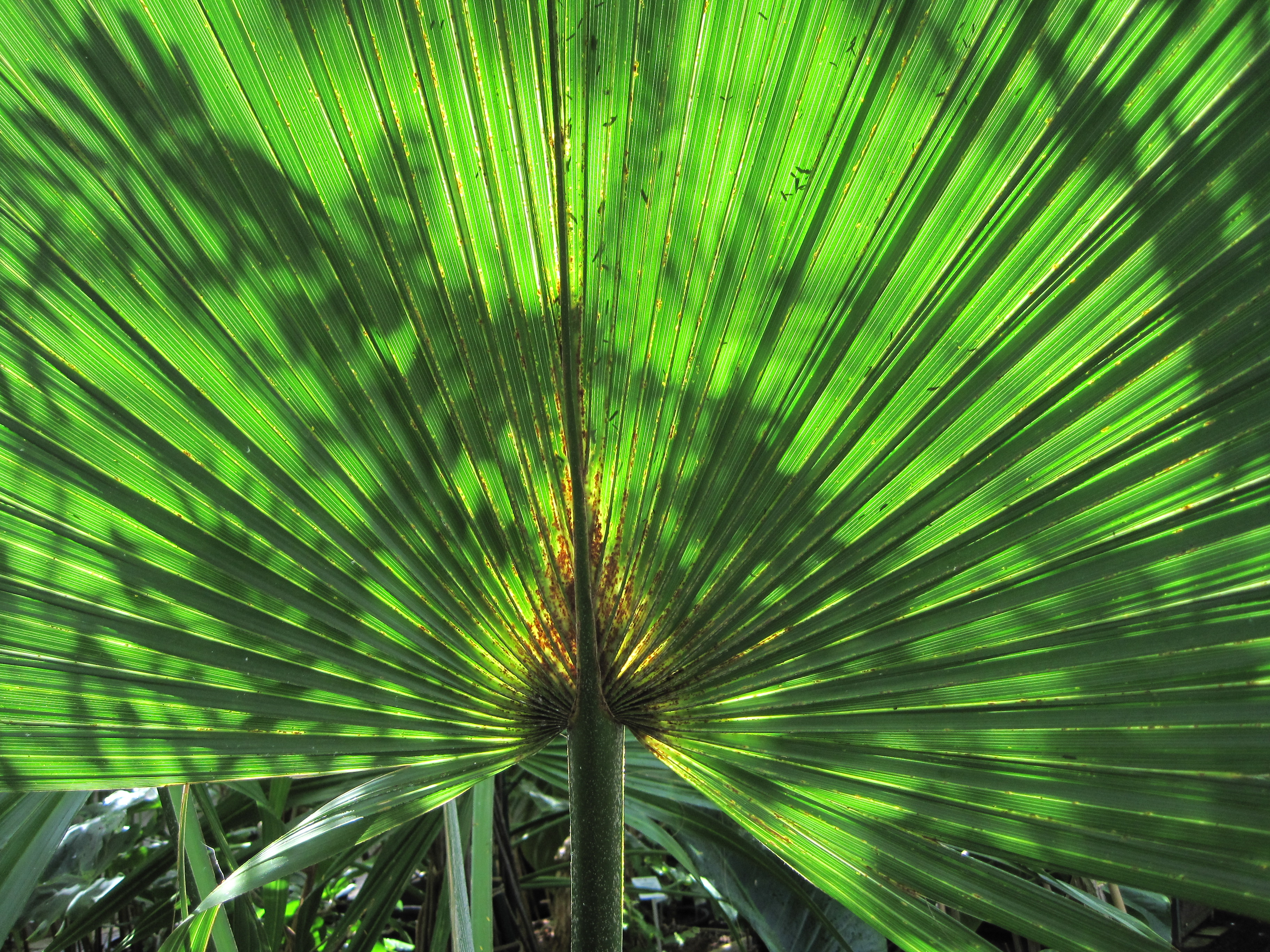 Dwarf Palmetto